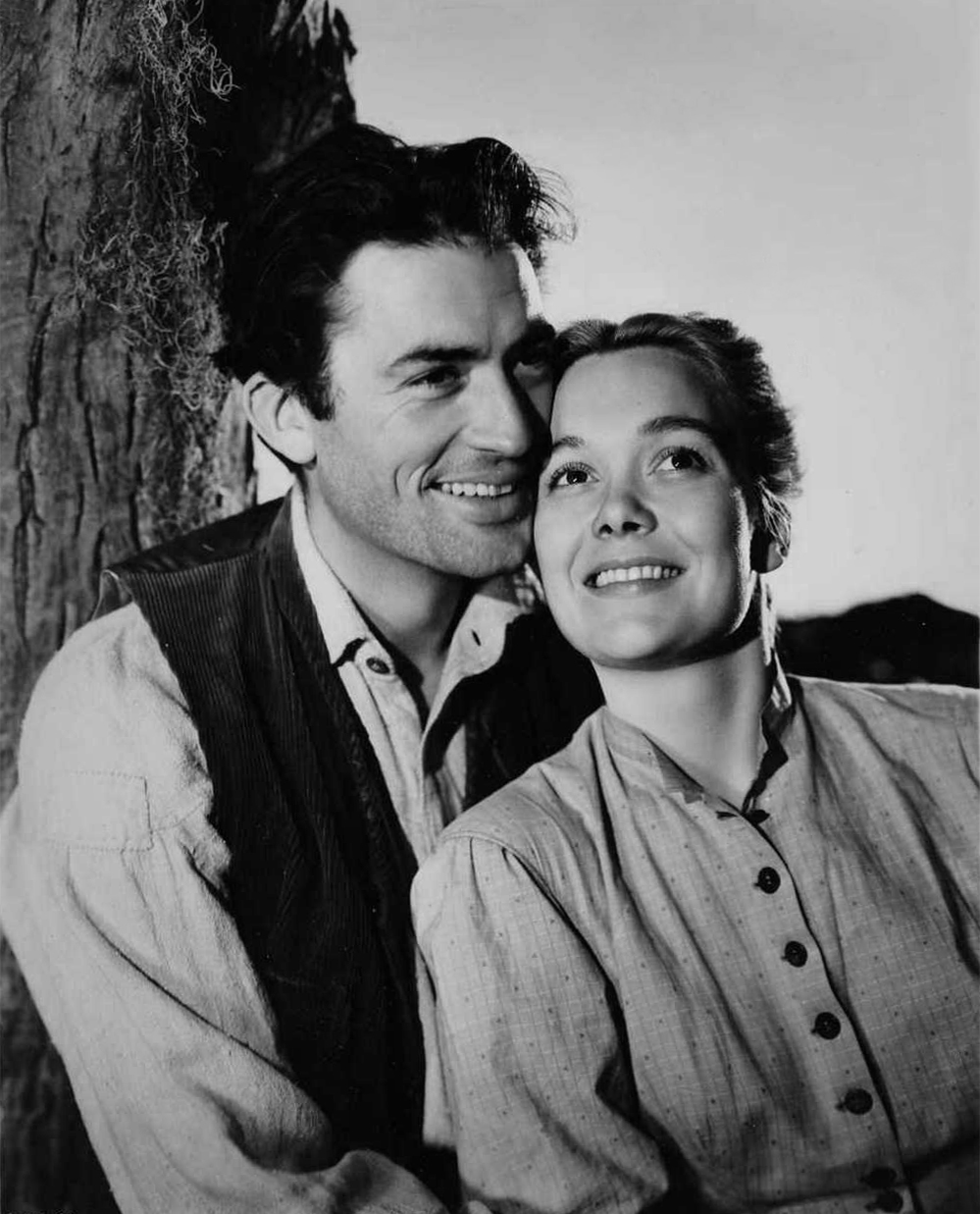 Gregory Peck and Jane Wyman publicity photo for the film The Yearling (1946)